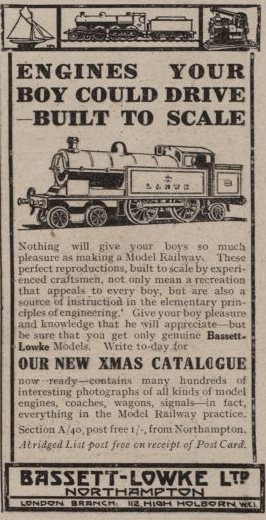 page 39 of the 28 December 1923 edition of The Radio Times